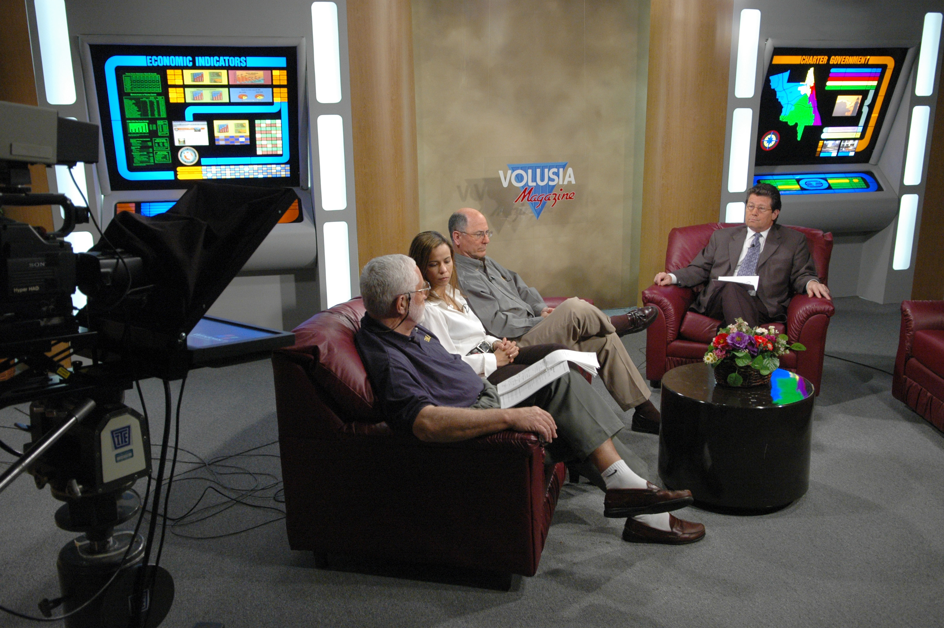 Deland, FL, February 7, 2007 -- FEMA Public Information Officer (PIO) Don Daniel (left), speaks on 'Volusia Magazine' a Volusia County produced, information TV show. FEMA PIOs diseminate information through the media to educate the public about the FEMA recovery process. Mark Wolfe/FEMA